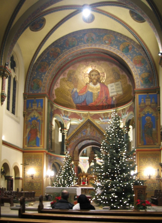 St. Johannes / Polish Basilica / Berlin 06 Contemplative moments after the Christmas Eve